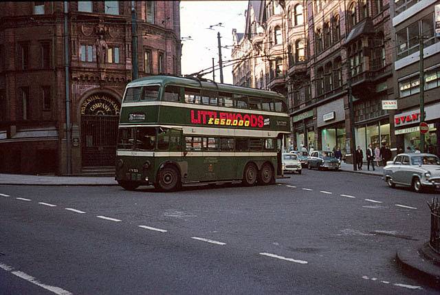 British Trolleybuses - Nottingham